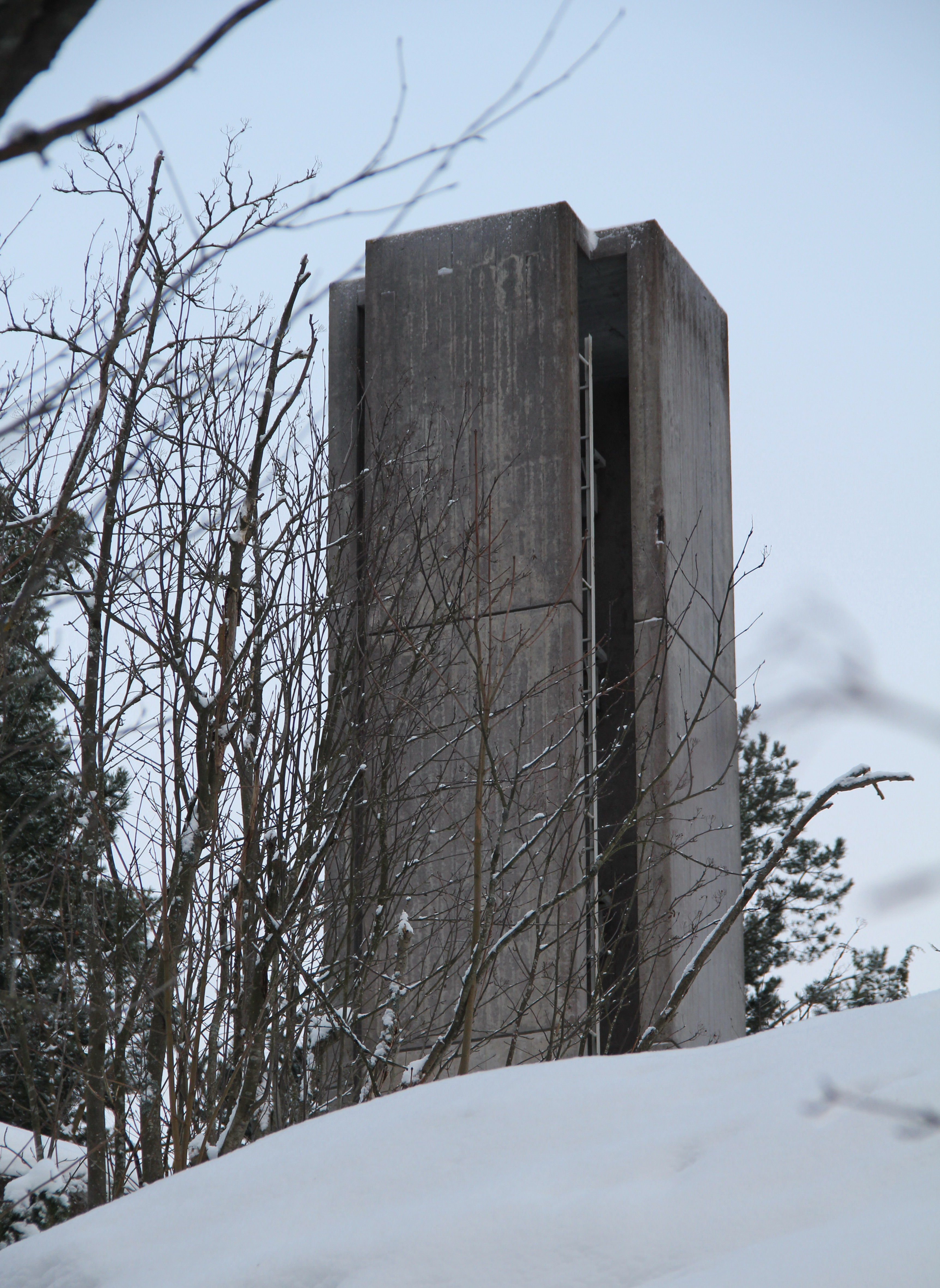 Kaivoksela church, Vantaa, Finland. The church is designed by architect Aarne Ehojoki and was completed in 1969. It burned down inside in 2006. Campanile.